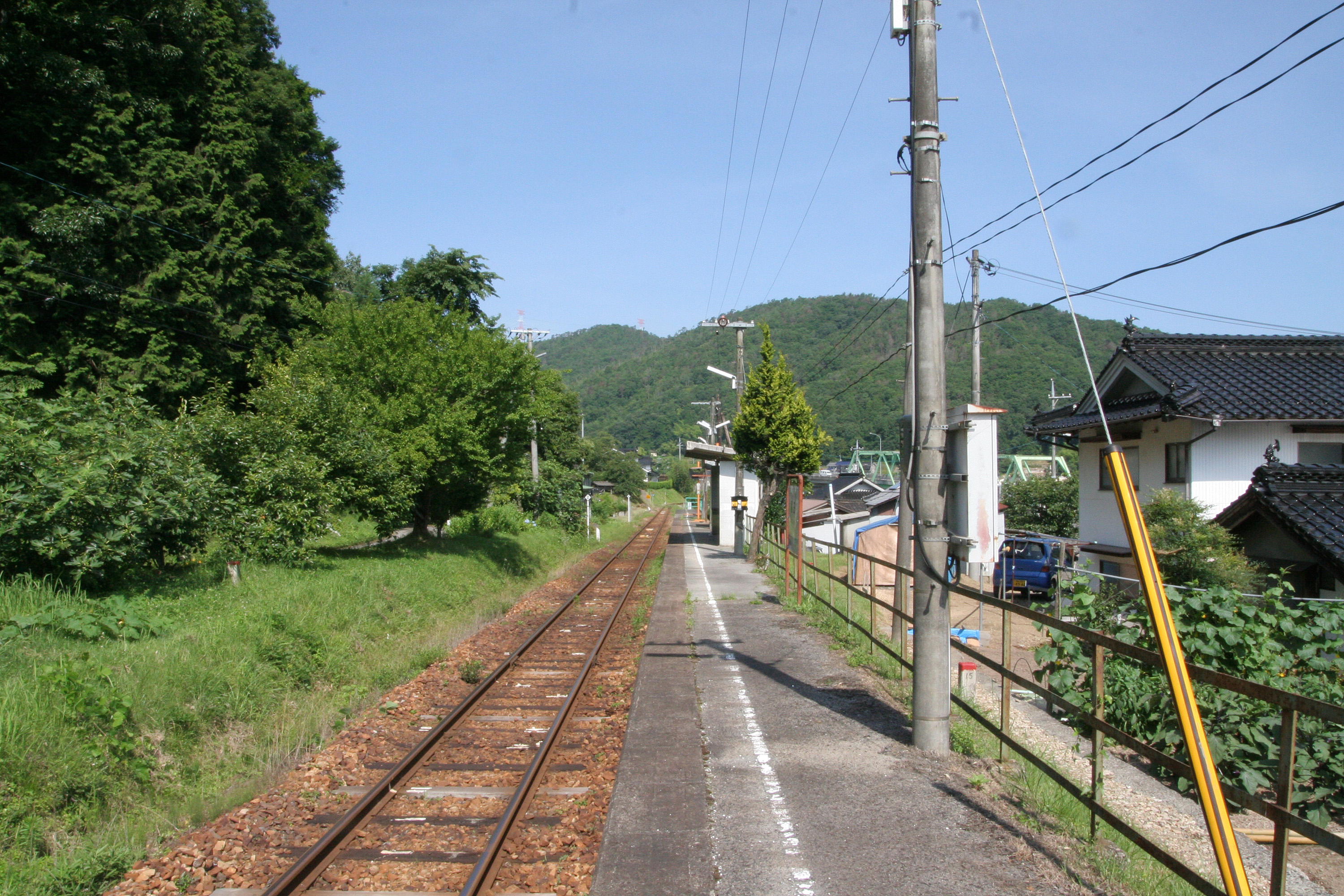 West Japan Railway Fukuen Line Kajita Station enclosure